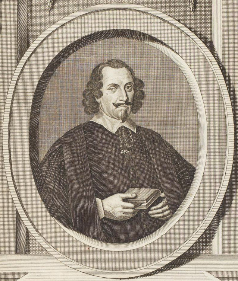 Engraved portrait of Joachim_Schnobel, in: in: Monumenta inedita rerum Germanicarum praecipue Cimbriacarum et Megapolensium : quibus varia antiquitatum, historiarum, legum iuriumque Germaniae, speciatim Holsatiae et Megapoleos vicinarumque regionum argumenta illustrantur, supplentur et stabiliuntur ; cum tabulis aeri incisis / e codicibus ... studuit ... et cum praefatione instruxit Ernestus Joachimus de Westphalen .. Band 3, Lipsiae: Martin 1741